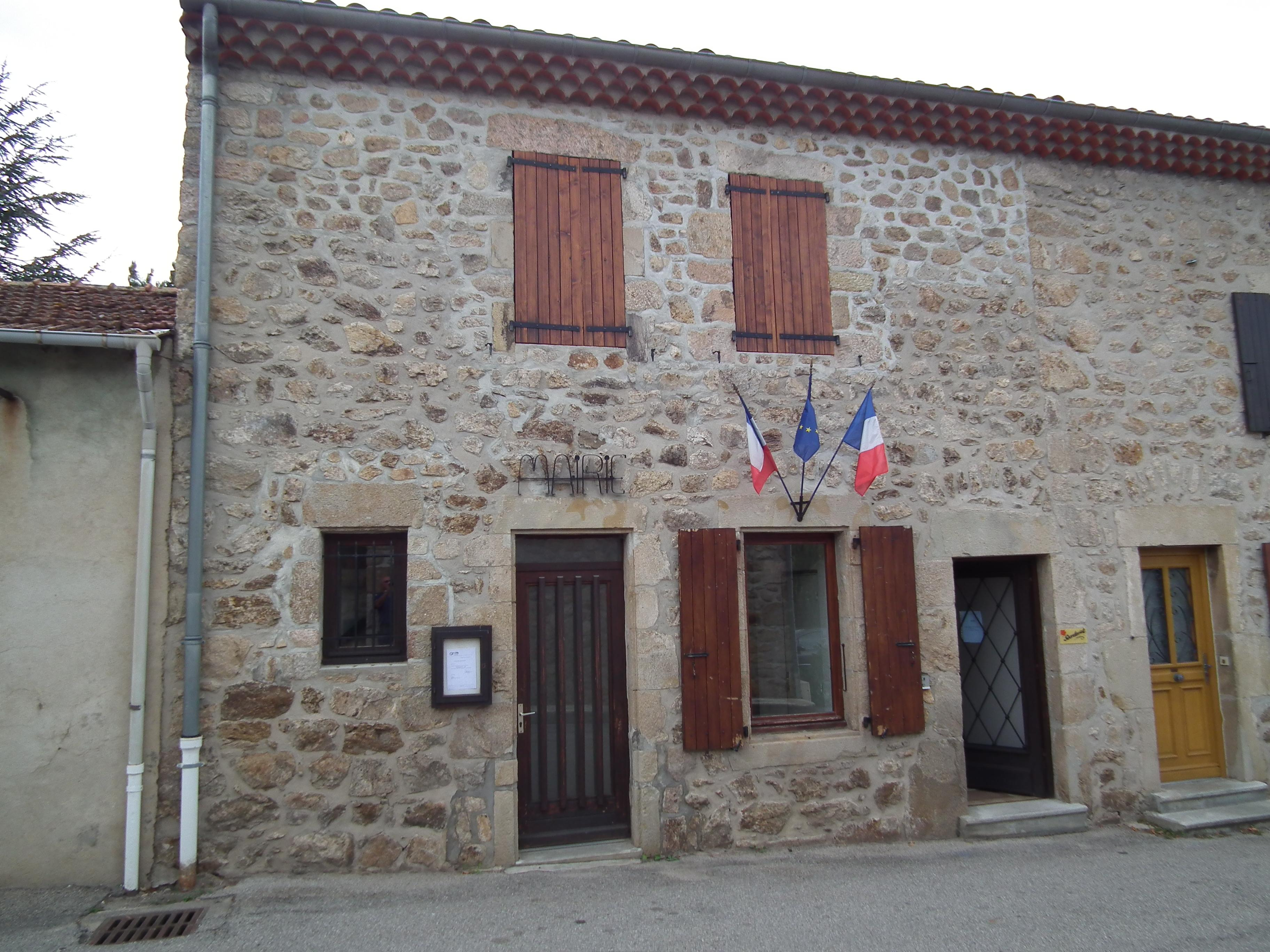 Town hall of Gilhoc-sur-Ormèze - Ardèche - France